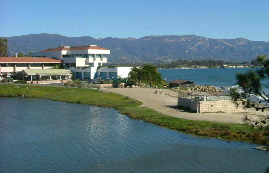 View of the Lagoon and the Marine Biotechnology Labatory at University of California, Santa Barbara. Original description: Date: November 27, 2004 Place: View of the Lagoon and the Marine Biotechnology Labatory at University of California, Santa Barbara. Copyright: GFDL, Cc-by-2.5 Photographer: Christopher Mann McKay Other information: Edited using iPhoto.